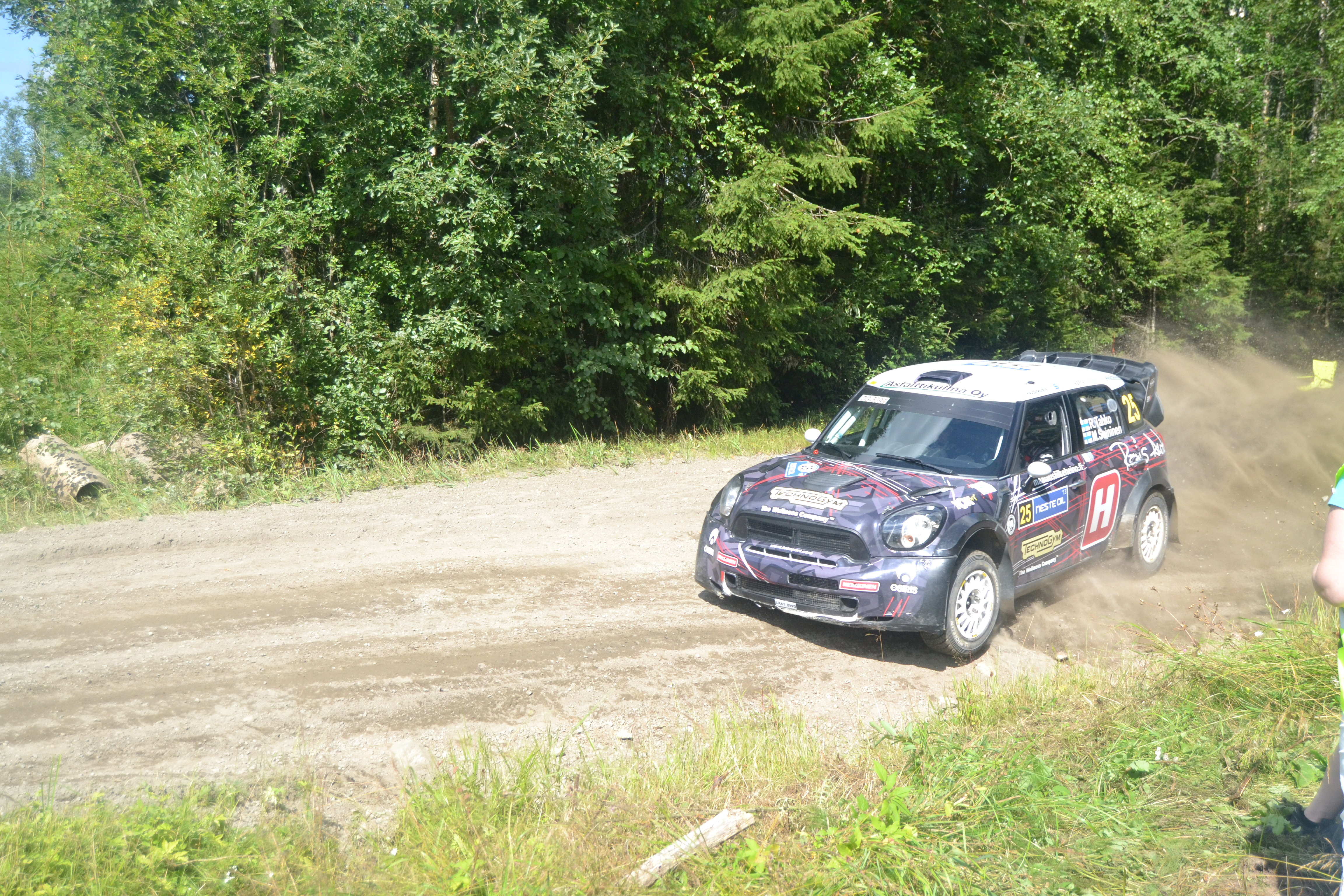 Riku Tahko at 2nd Surkee stage at 2013 Rally Finland